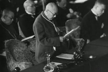 Scene from Japanese newsreel (Tokyo Conference, 1943). Speech by Zhang Jinghui.